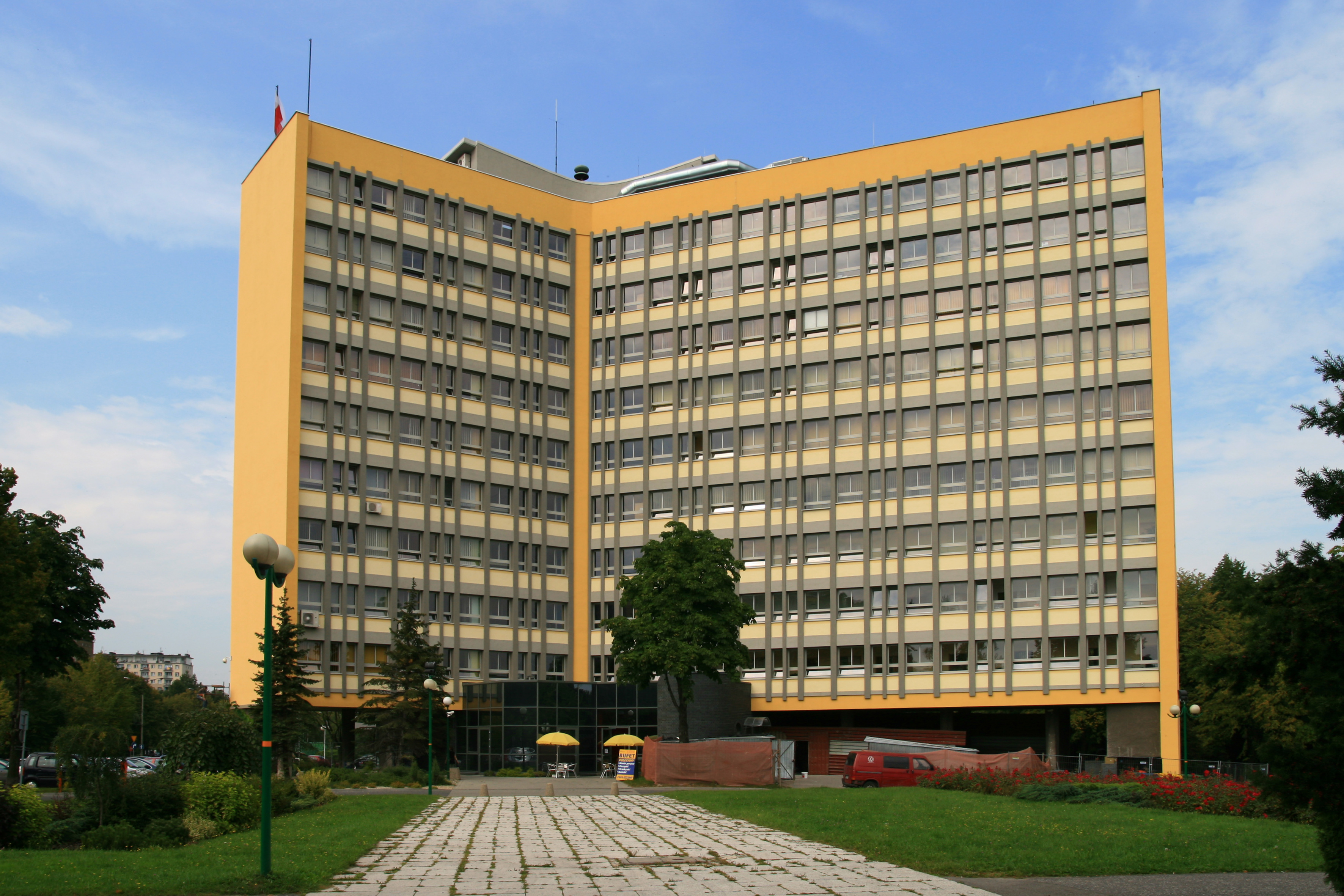 Seat of the Town National Council in Tychy (Poland).